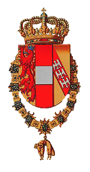 Lesser common Coat of Arms of Austria-Hungary 1916